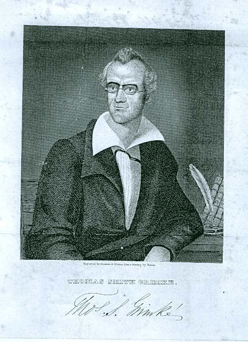 Thomas Smith Grimké